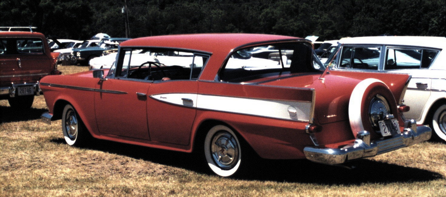 1959 Rambler Country Club four-door hardtop (no center pillar) sedan - finished in red with white trim and the optional "continental tire" mounted on the rear. Made by American Motors Corporation. Picture was taken at an automobile gathering in "Nashville" - PA.